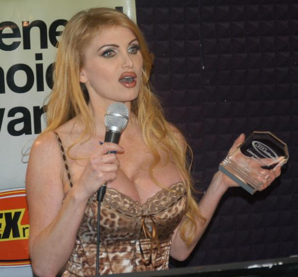 Taylor Wane at KSEXradio Listener Choice Awards 2005.